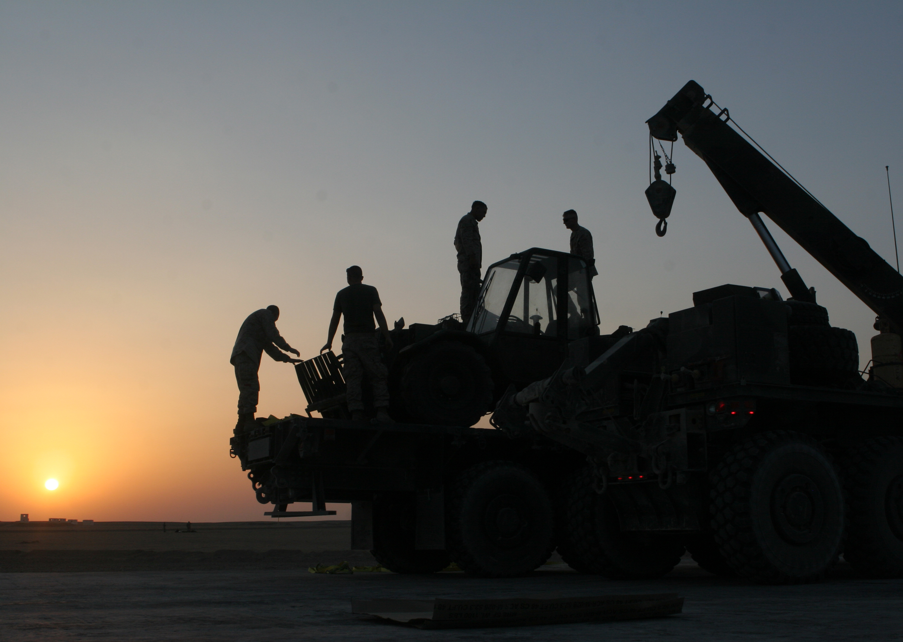 Marines from Combat Logistics Battalion 22 load a forklift onto a Medium Tactical Vehicle Replacement at CAMP BUEHRING KUWAIT, KUWAIT.